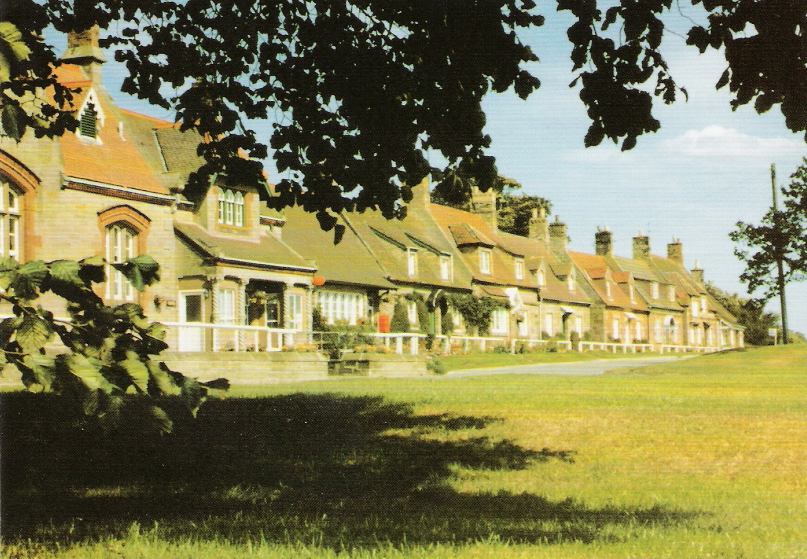 Fading old colour photo of Foulden Village. No copyright.